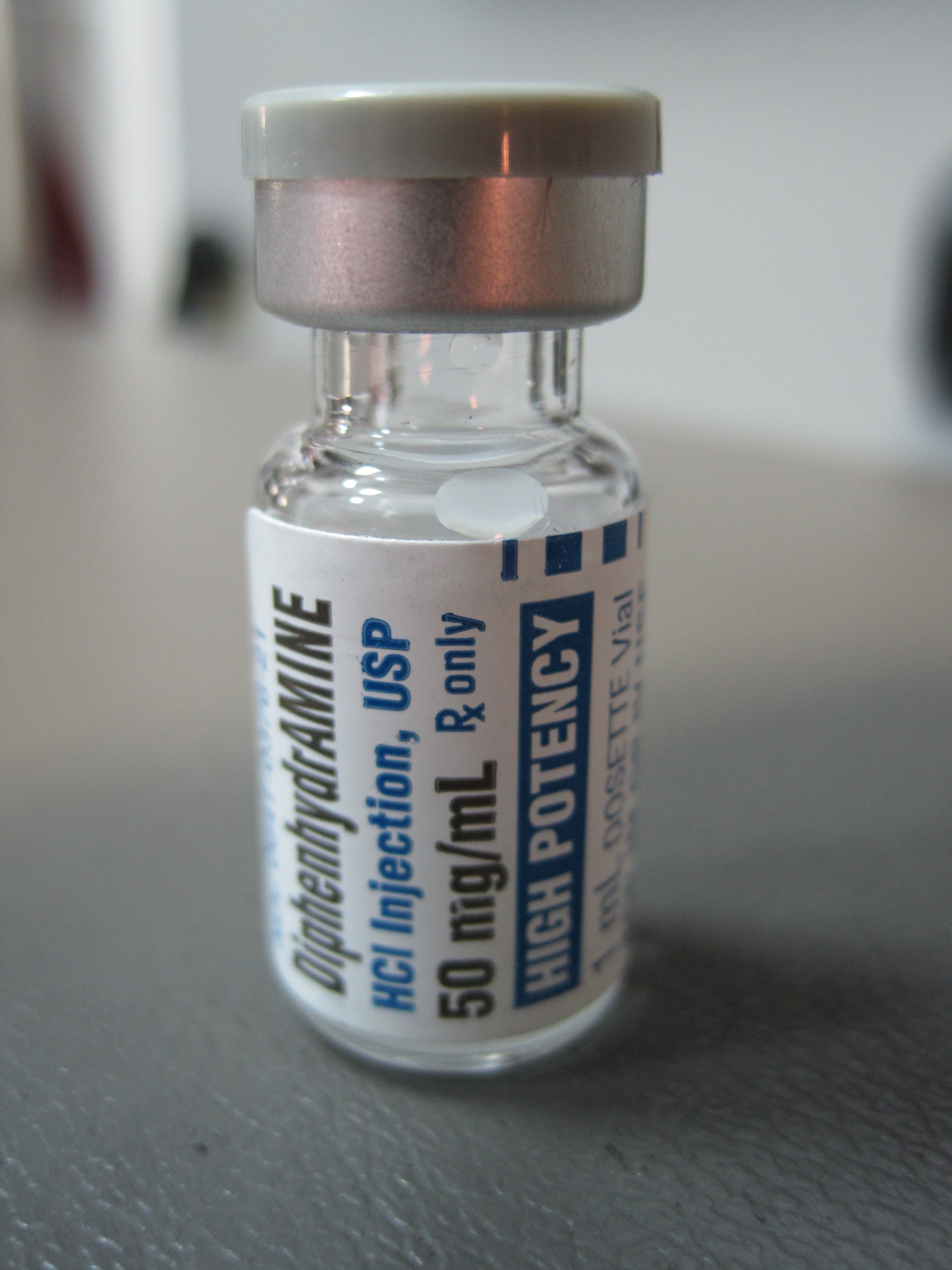 Diphenhydramine HCl preparation, single dose vial for IV administration.